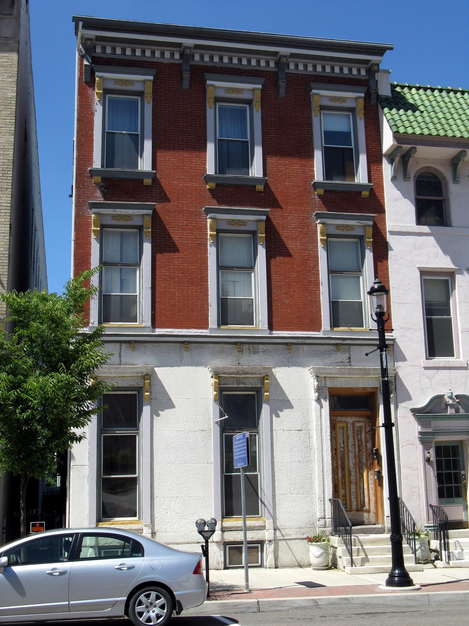 The historic Anthracite Bank Bldg in Tamaqua, Pennsylvania. It is listed on the National Register of Historic Places.